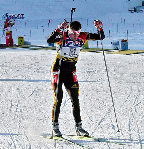 Biathlete Sven Fischer in Oberhof during the 2003 Biathlon World Cup